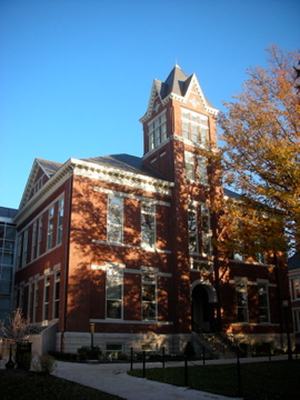 University of Missouri School of Law, Law Barn, built in 1893